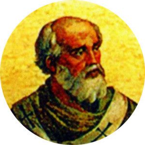 Portait of Pope Sisinnius in the Basilica of Saint Paul Outside the Walls, Rome